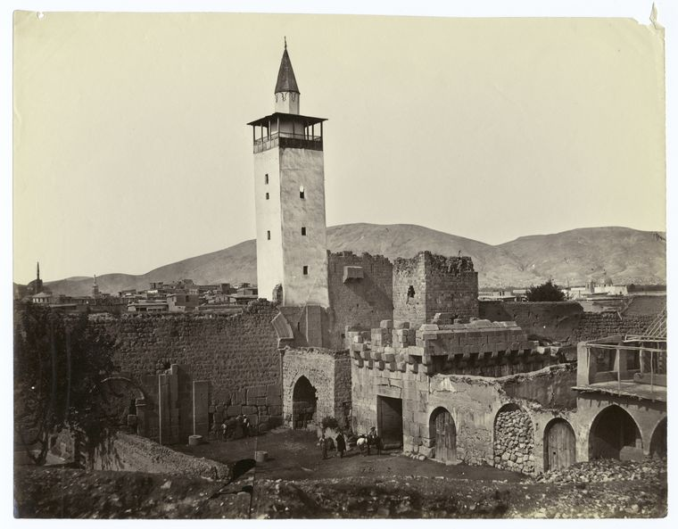 Digital ID: 88485. 1860s-1920s Source: [Photographs and prints of Egypt and Syria.] (more info) Repository: The New York Public Library. Photography Collection, Miriam and Ira D. Wallach Division of Art, Prints and Photographs. See more information about this image and others at NYPL Digital Gallery. Persistent URL: Rights Info: No known copyright restrictions; may be subject to third party rights (for more information, click here)